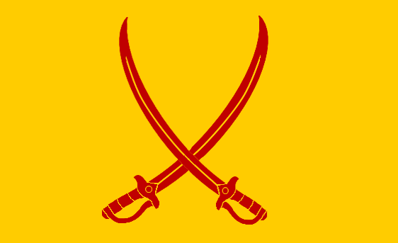 Pandara Vanniyan the last ruler of Vannimai has a flag with Crossed Swords. The emblem of the Vanniyar Caste is Crossed Swords and Agni Kundam.